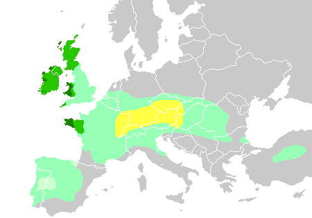 Celts in Europe the core Hallstatt territory, expansion before 500 BC maximum Celtic expansion by the 270s BC Lusitanian, Autrigones, Varduli and Caristi areas of Iberia, "Celticity" uncertain the boundaries of the six commonly-recognized 'Celtic nations', which remained Celtic speaking throughout the Middle Ages (viz. Brittany, Wales, Cornwall, Isle of Man, Ireland, Scotland) areas that remain Celtic-speaking today